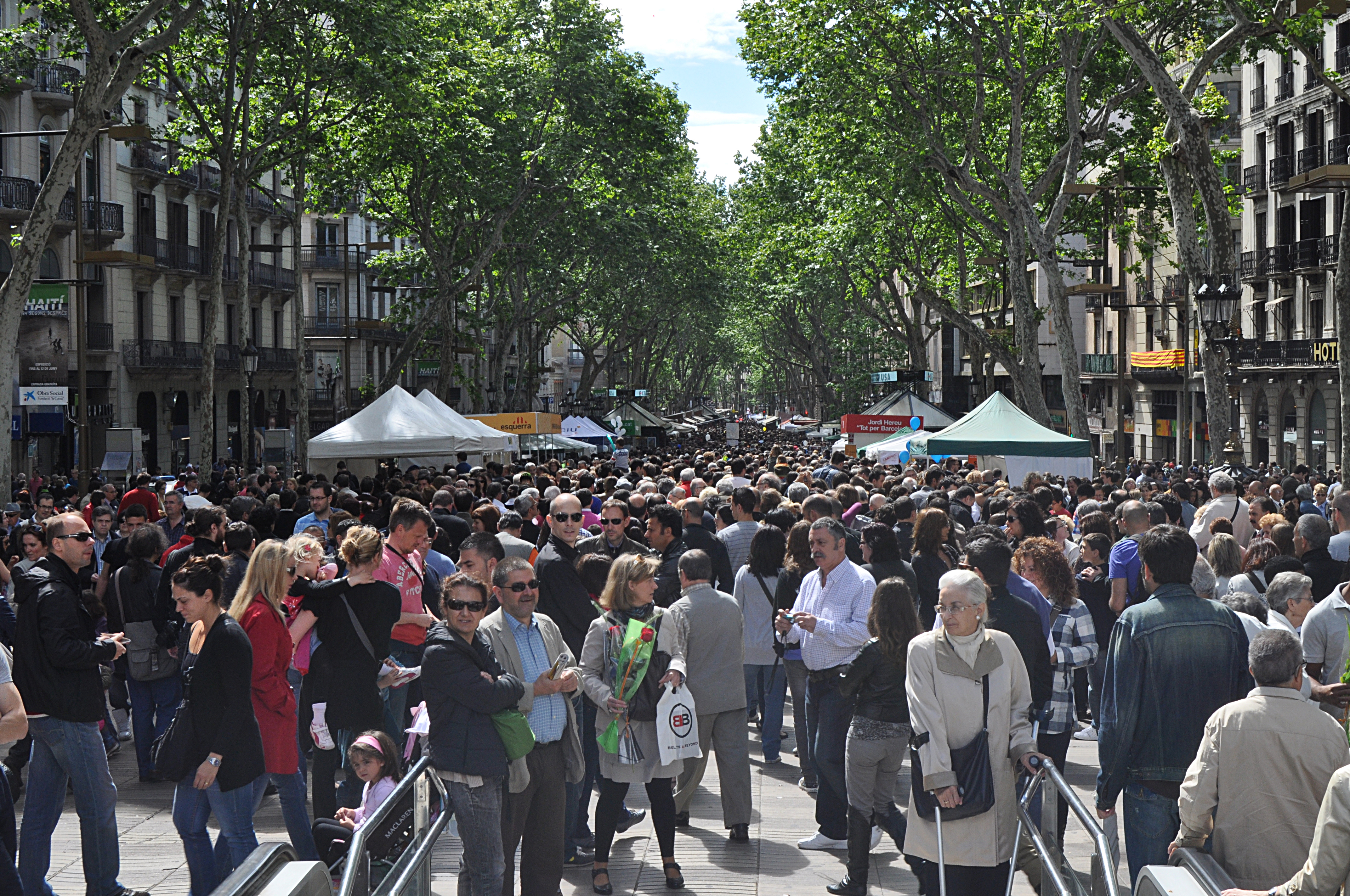 Diada de Sant Jordi 2011: La Rambla of Barcelona.